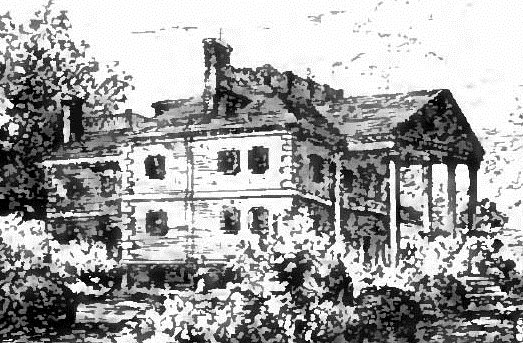 Drawing of mansion occupied by Eliza Jumel, originally built by Roger Morris in 1765.